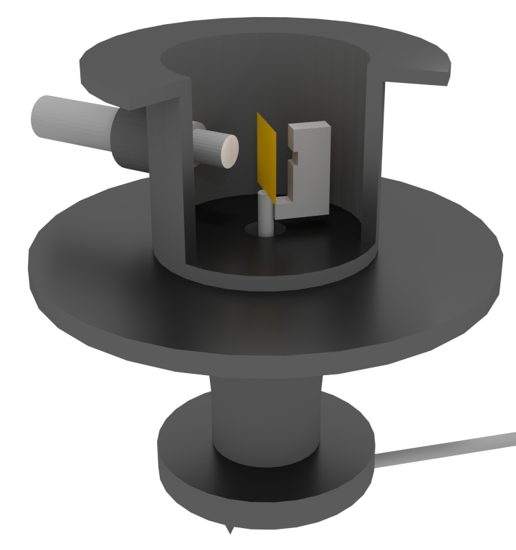 In 1913, Hans Geiger and Ernest Marsden performed a scientific experiment by which they proved the existence of the atomic nucleus by measuring how a metal foil scatters a beam of alpha particles. This is a computer-generated model of the apparatus they used to measure how the scattering varied with the angle of incidence. It is based on this illustration provided in Geiger and Marsden's original 1913 paper, The Laws of Deflexion of a Particles through Large Angles.